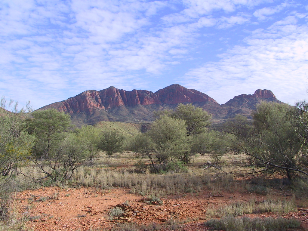 Mount Sonder, Australia from the east, along the Larapinta trail, mid 2004.